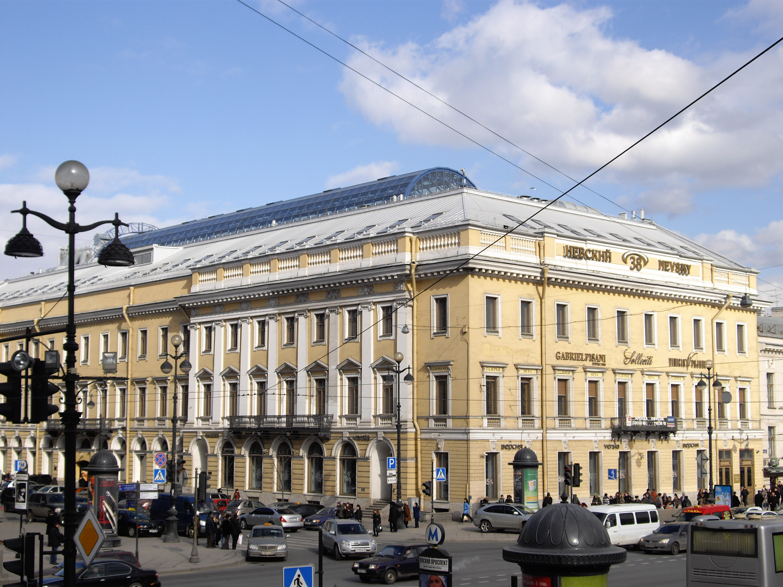 38, Nevsky Prospekt, Saint-Petersburg, Russia